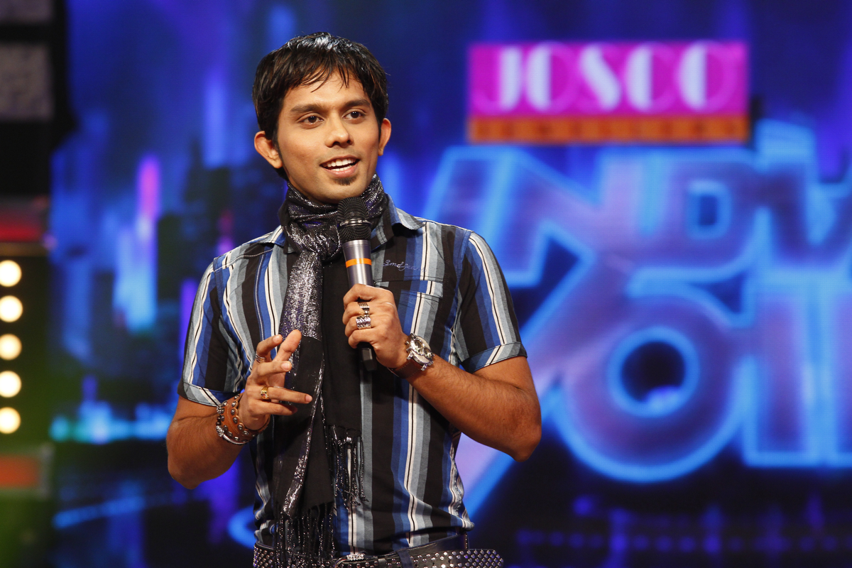 Anand Narayan hosting the music reality show 'Josco Indian Voice' on Mazhavil Manorama Channel